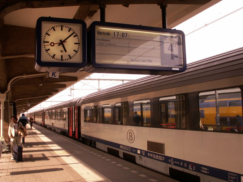 Maastal-Intercity in Maastricht station, The Netherlands